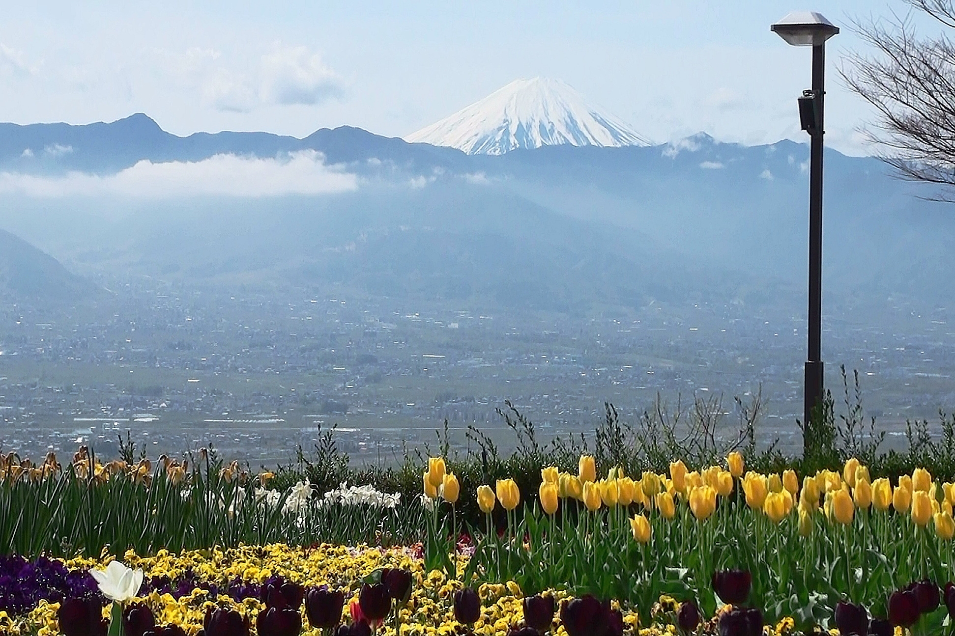 From fruit Park the view of Kofu basin and Mt. Fuji